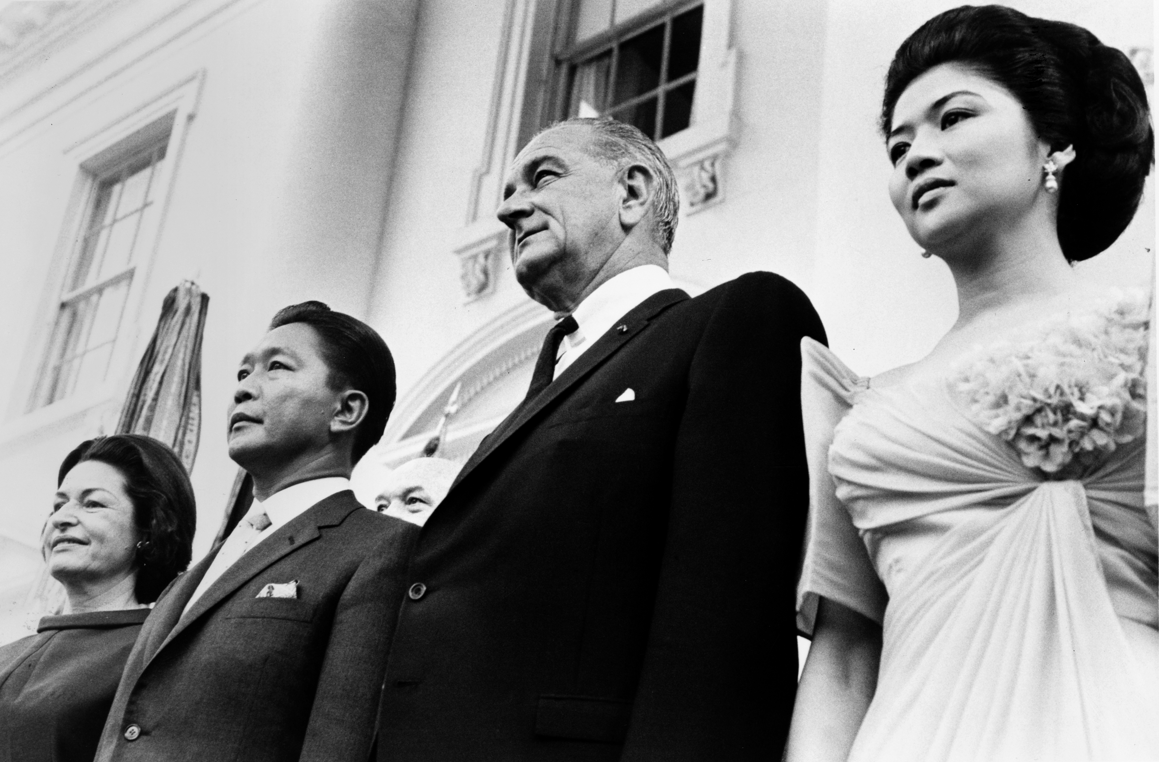 Ferdinand and Imelda Marcos during a state visit at the White House in 1966